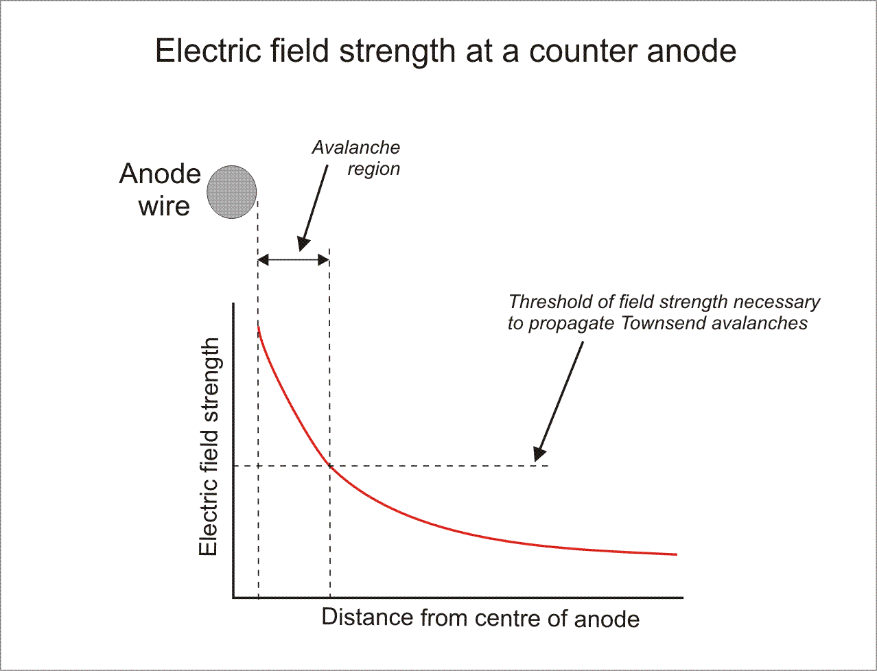 plot of electric field strength in the region of the proportional counter anode. The diagram visualises the strength of the electric field in the vicinity of the anode of a co-axial gaseous radiation detector. As the anode is approached the electric field strength increases exponentially, so that within a short distance from the anode it is sufficient to generate Townsend elecron avalanches if a free electron enters the region. The gas proportional detector is designed so that this region occupies only a small volume adjacent to the anode so that most of the gas space is present only to act as an ion chamber to allow interaction of incident radiation. A Geiger-Muller tube exhibits the same characteristic of increase in field strength at the anode, but a higher voltage is applied than for a proportional counter with the same geometry, which results in a larger region where Townsend avalanches can be created, and higher field strengths are encountered which gives rise to the generation of UV photons, and thereby multiple avalanches. The Townsend avalanche region in the G-M tube may occupy all or most of the gas space.